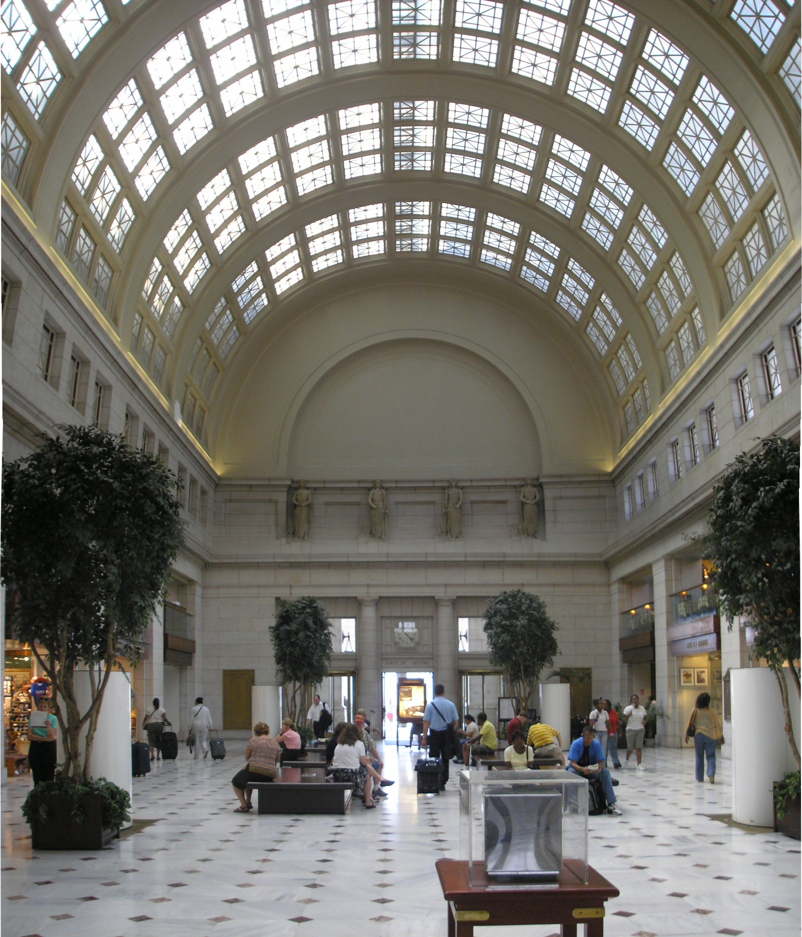 One of the side halls at Union Station (Washington, D.C.)